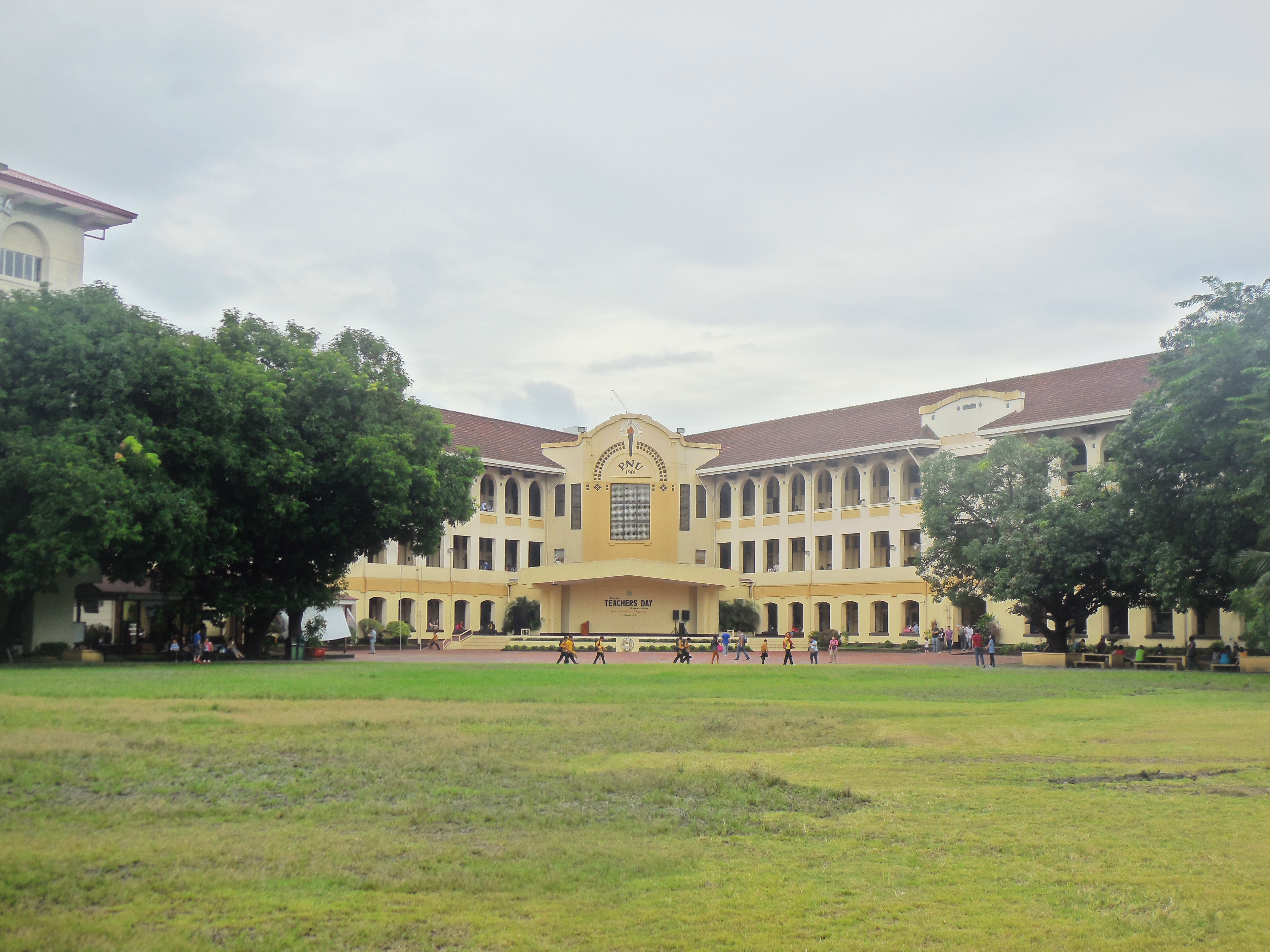 The Main Building of the Philippine Normal University in Taft Avenue cor. Ayala Boulevard, Manila.